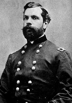 Charles Doolittle, Union general. From